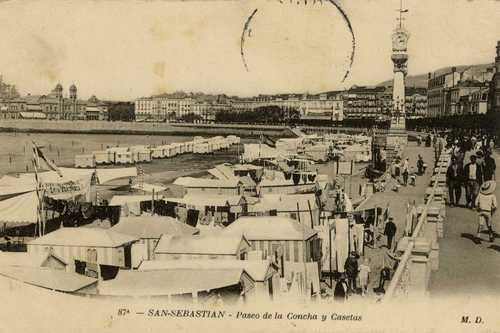 Concha beach in Donostia.